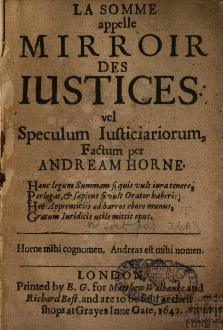 Title page of Andrew Horn (1642) La somme appelle Mirroir des iustices: vel Speculum Iusticiariorum, Factum per Andream Horne (1st ed.), London: Printed by E[dward] G[riffin] for Matthew Walbanke and Richard Best and are to be sold at their shops at Grayes Inne Gate OCLC: 84157087.